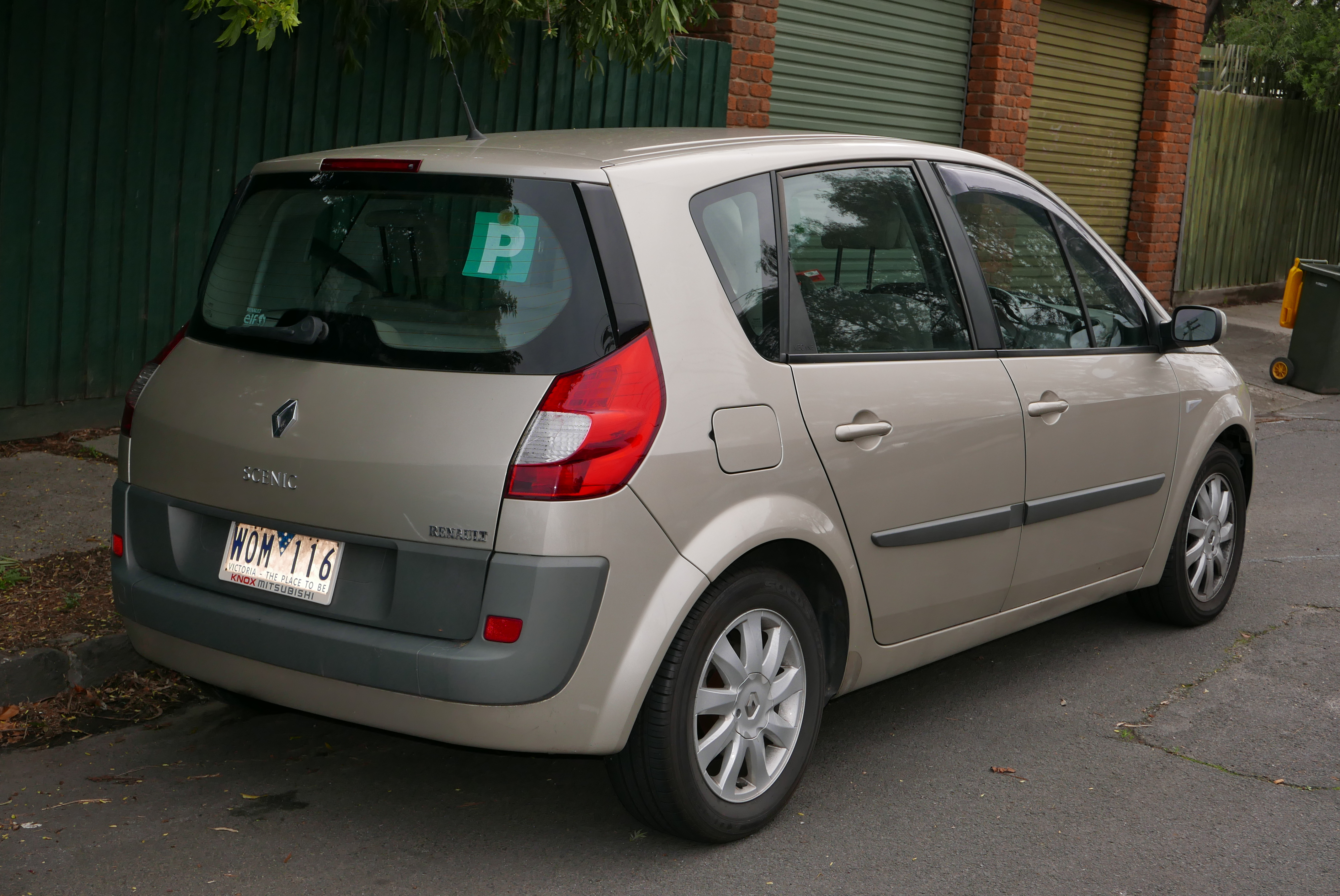 2008 Renault Scénic (J84 Phase 2) Expression dCi hatchback. Photographed in Brunswick East, Victoria, Australia. Vehicle registration enquiry results Jurisdiction Victoria Registration WOM116 Chassis code VF1JMS40A70647083 Engine code F9QJ803C012472 Compliance date 2008-07 Year of manufacture 2008